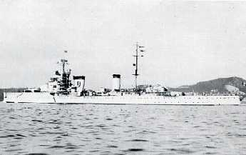 Olasz könnyűcirkáló.